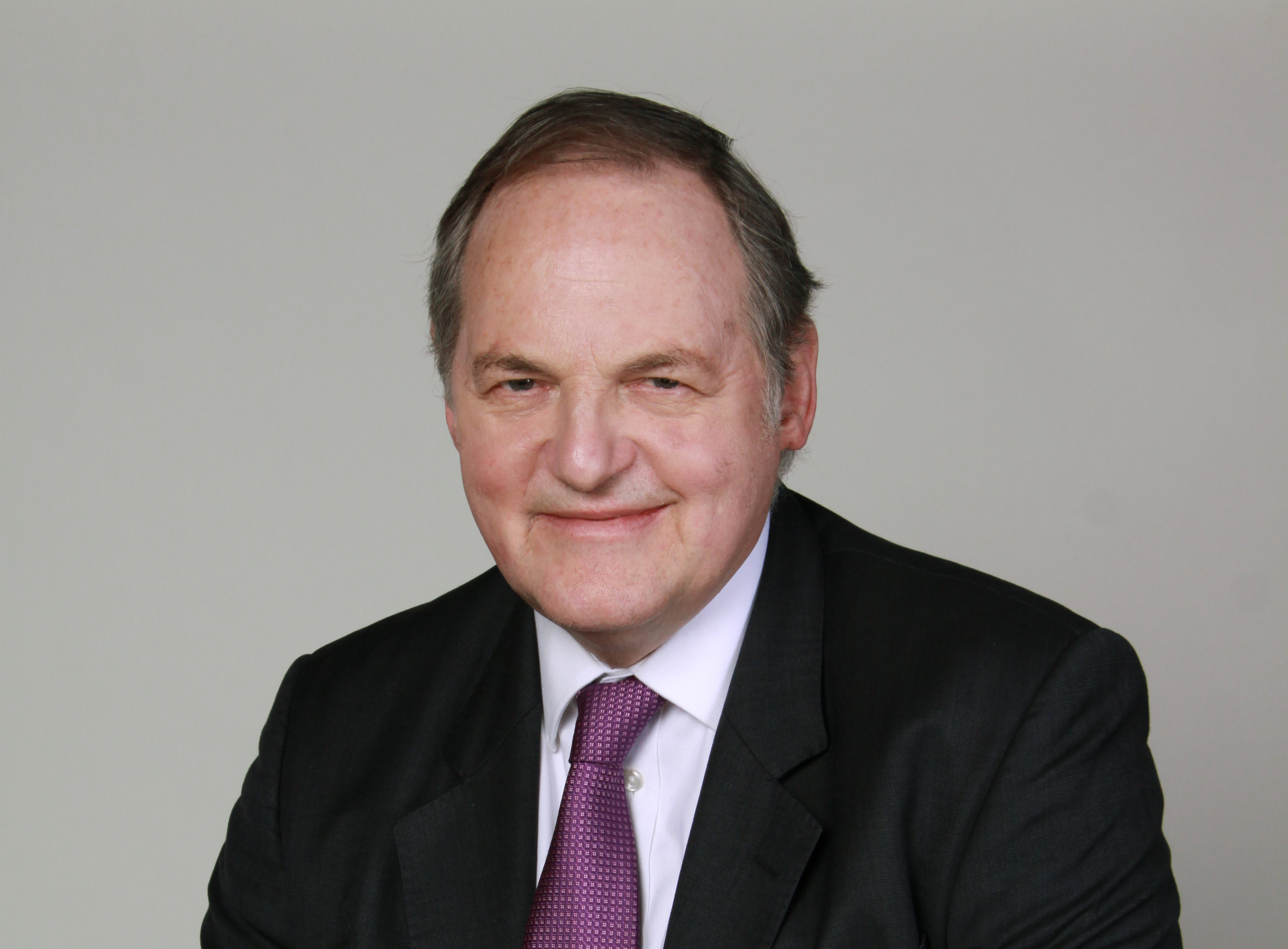 William (The Earl of) Dartmouth, Member of the European Parliament